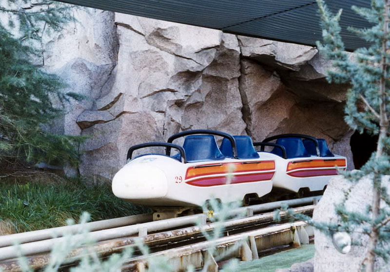 Matterhorn Bobsleds Disneyland 2000 Not the best coaster ever. Still in Disney Land. Taken by Ellen Levy Finch (User:Elf)